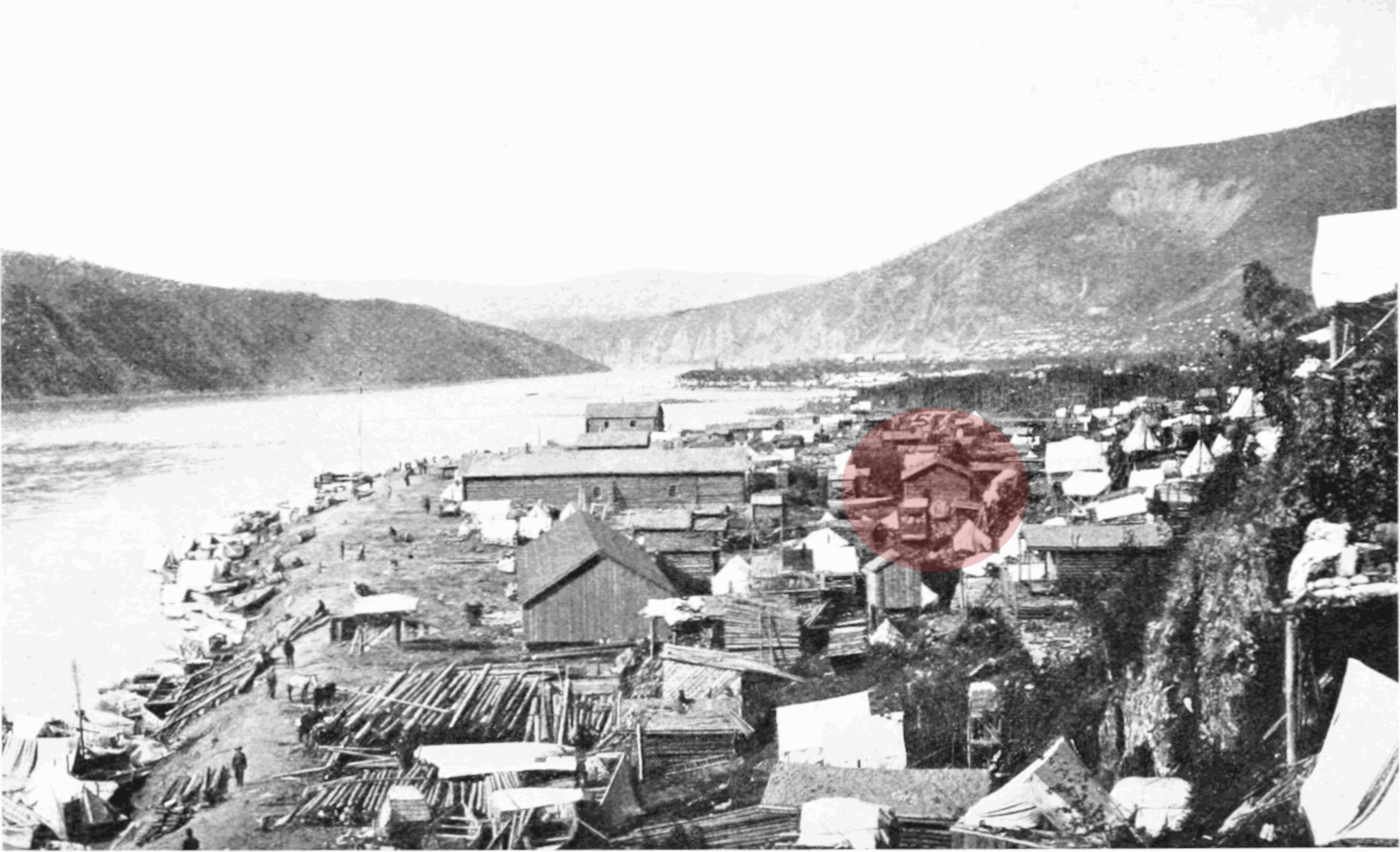 Klondike Brewery site - 1899